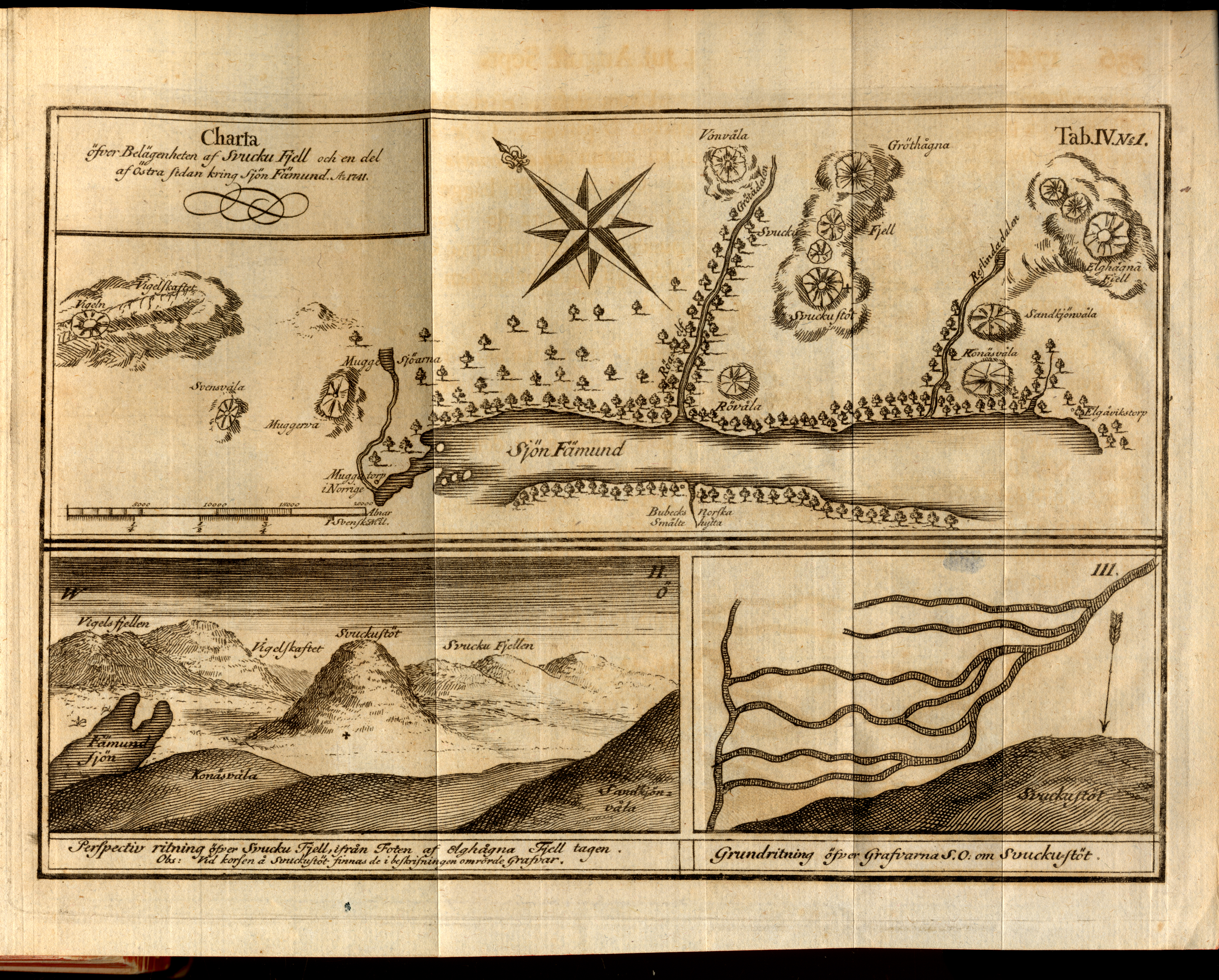 Map of the Store Svuku (Svuku-Mountain) and part of the east side of Lake Femund, Norway, 1741.